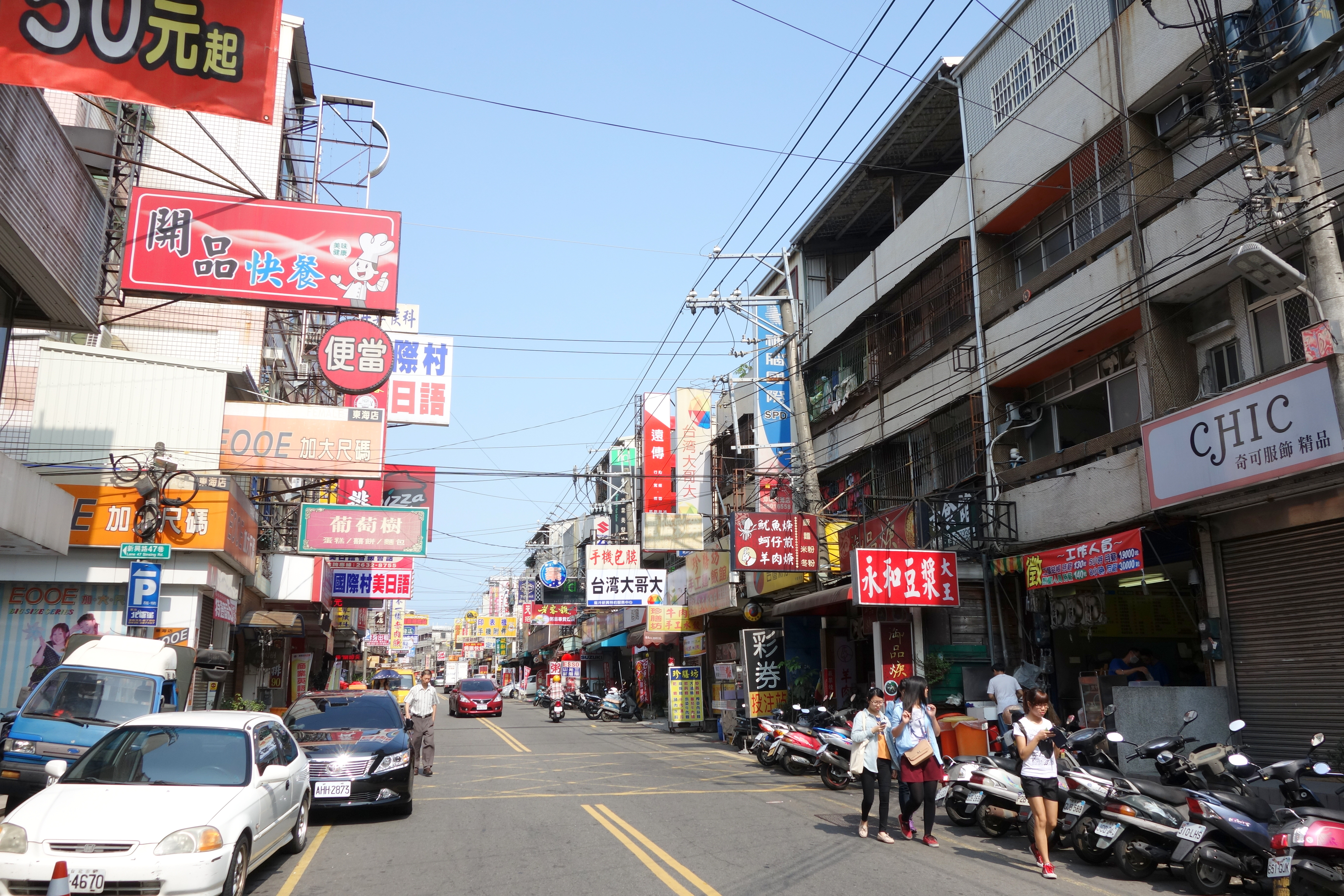 Tung-hai Hua-yüan Bie-shu - adjacent to Tunghai University, Taichung, Taiwan.